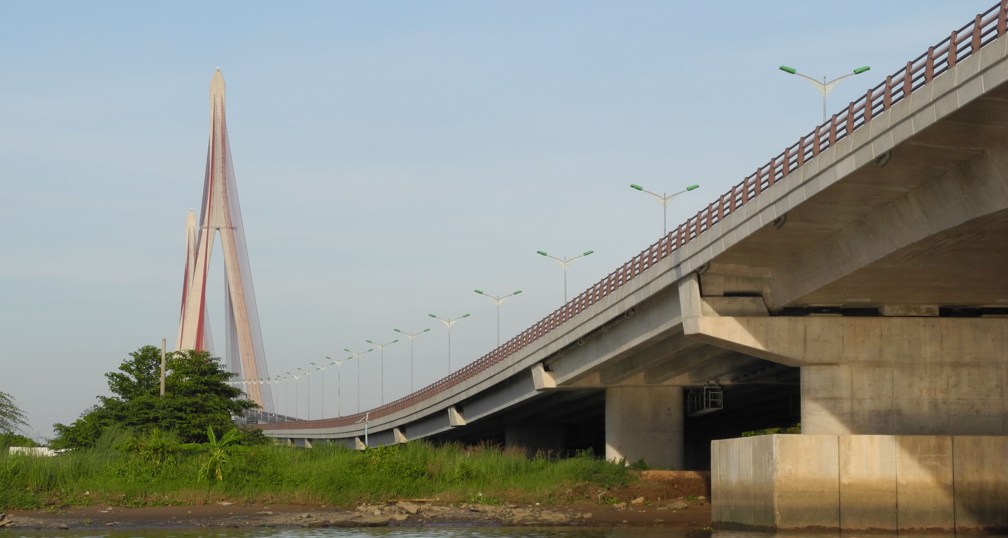 Can Tho City-Can Tho bridge